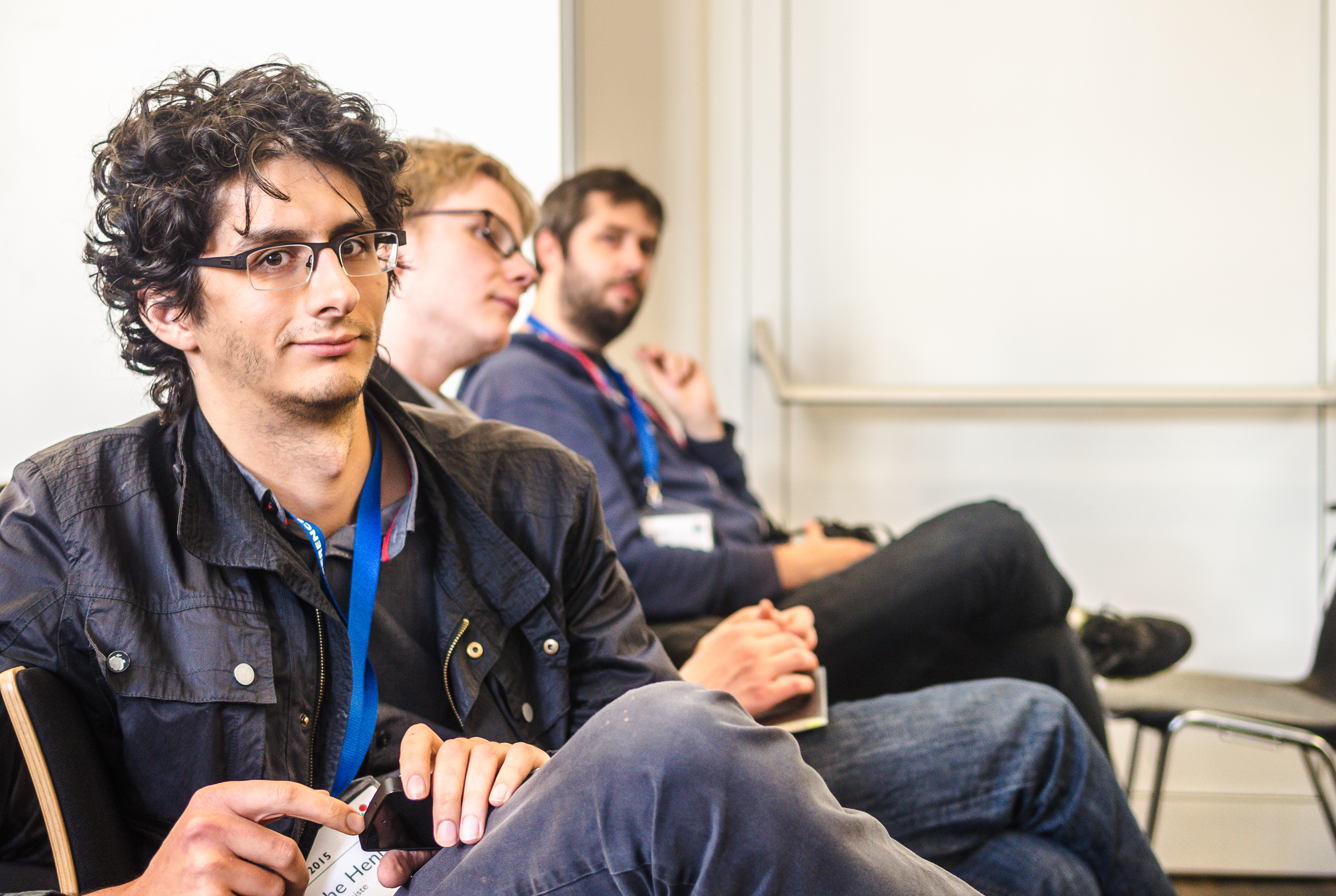 Christophe Henner at Wikimedia Conference 2015 in Berlin, Germany